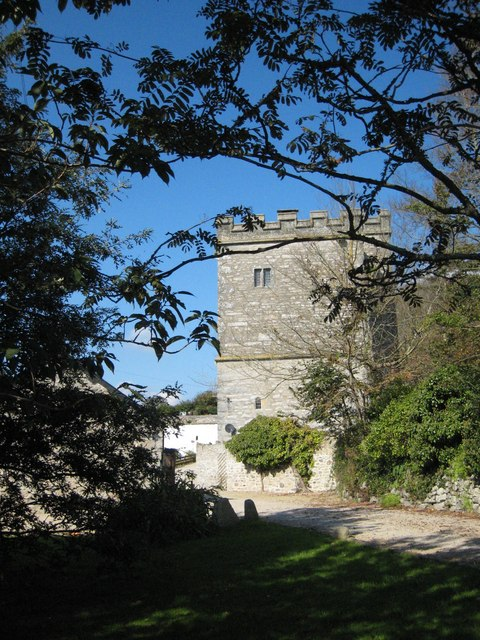 Pengersick Castle The remaining buildings date from 1500. Reputed to be the most haunted castle in Britain.